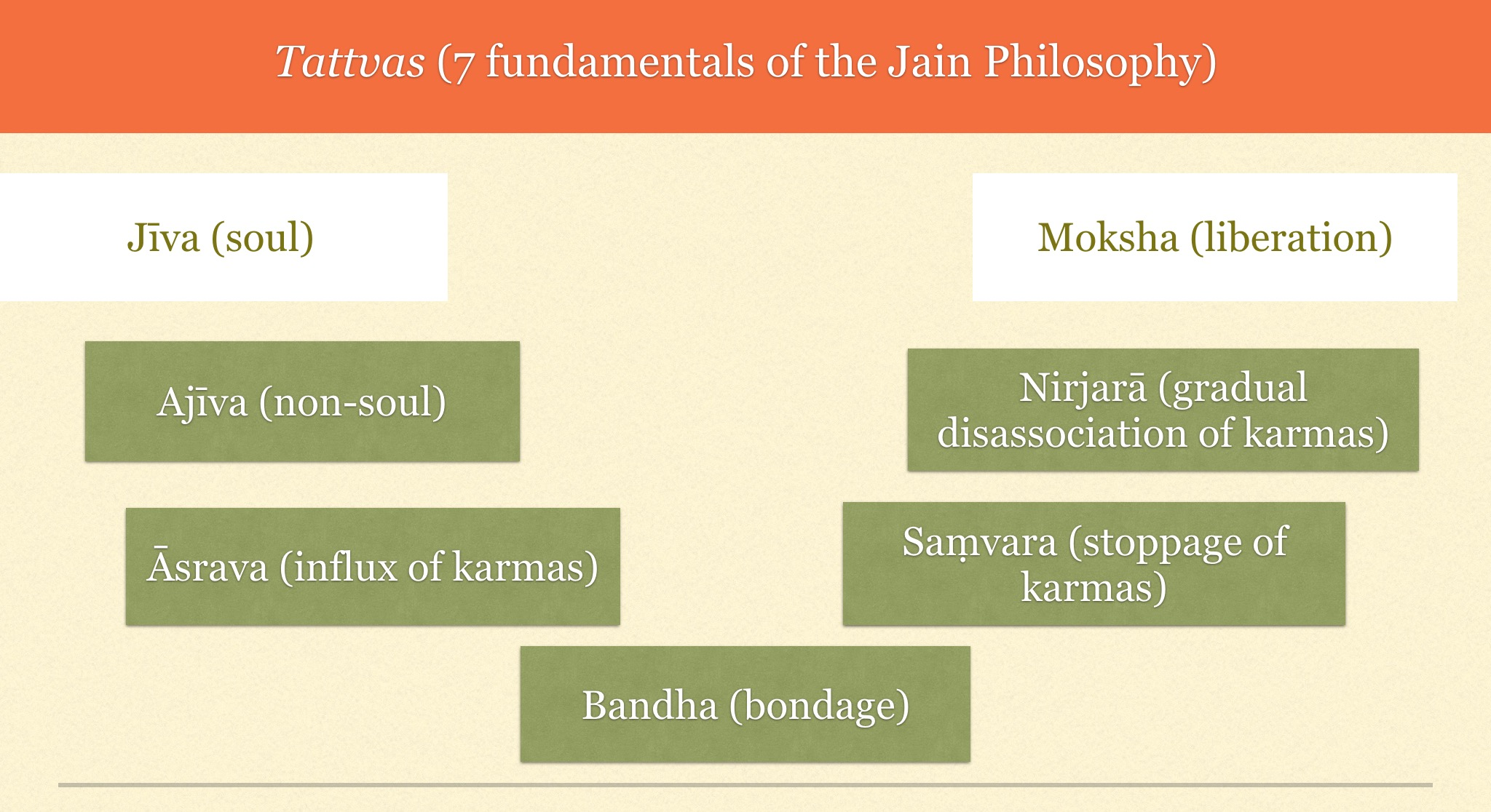 Chart about 7 Tattvas (fundamentals) of the Jain philosophy.